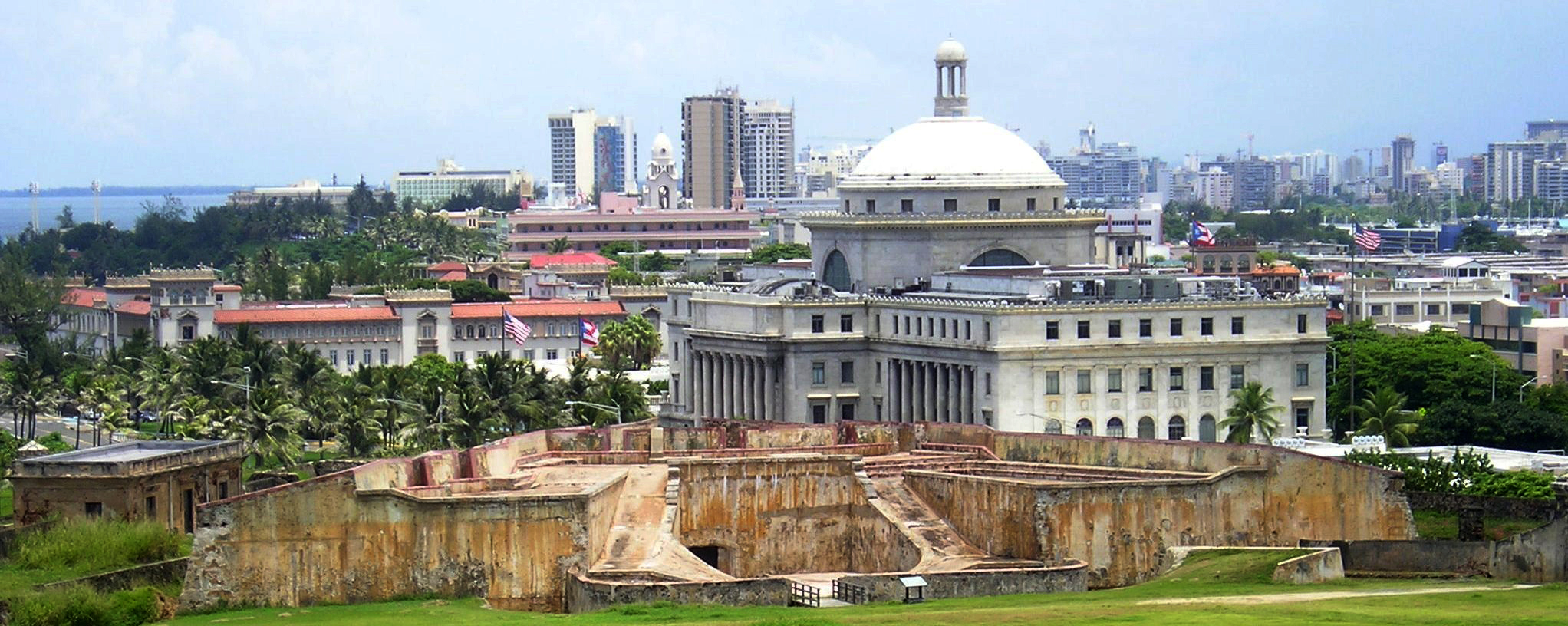 The Skyline of San Juan with the Capitol of Puerto Rico, from the San Cristóbal Castle fort. San Juan, Puerto Rico.